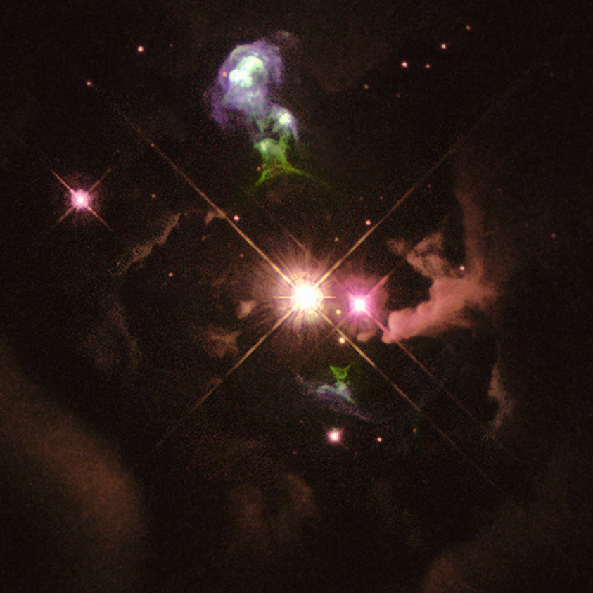 Hubble Space Telescope image of Herbig-Haro object HH32. More here.